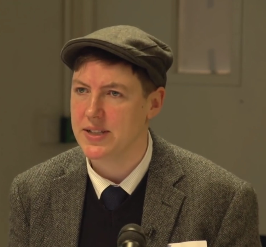 Dr. Meg-John Barker speaks about bisexuality, biphobia, and mental health for Pink Therapy UK.